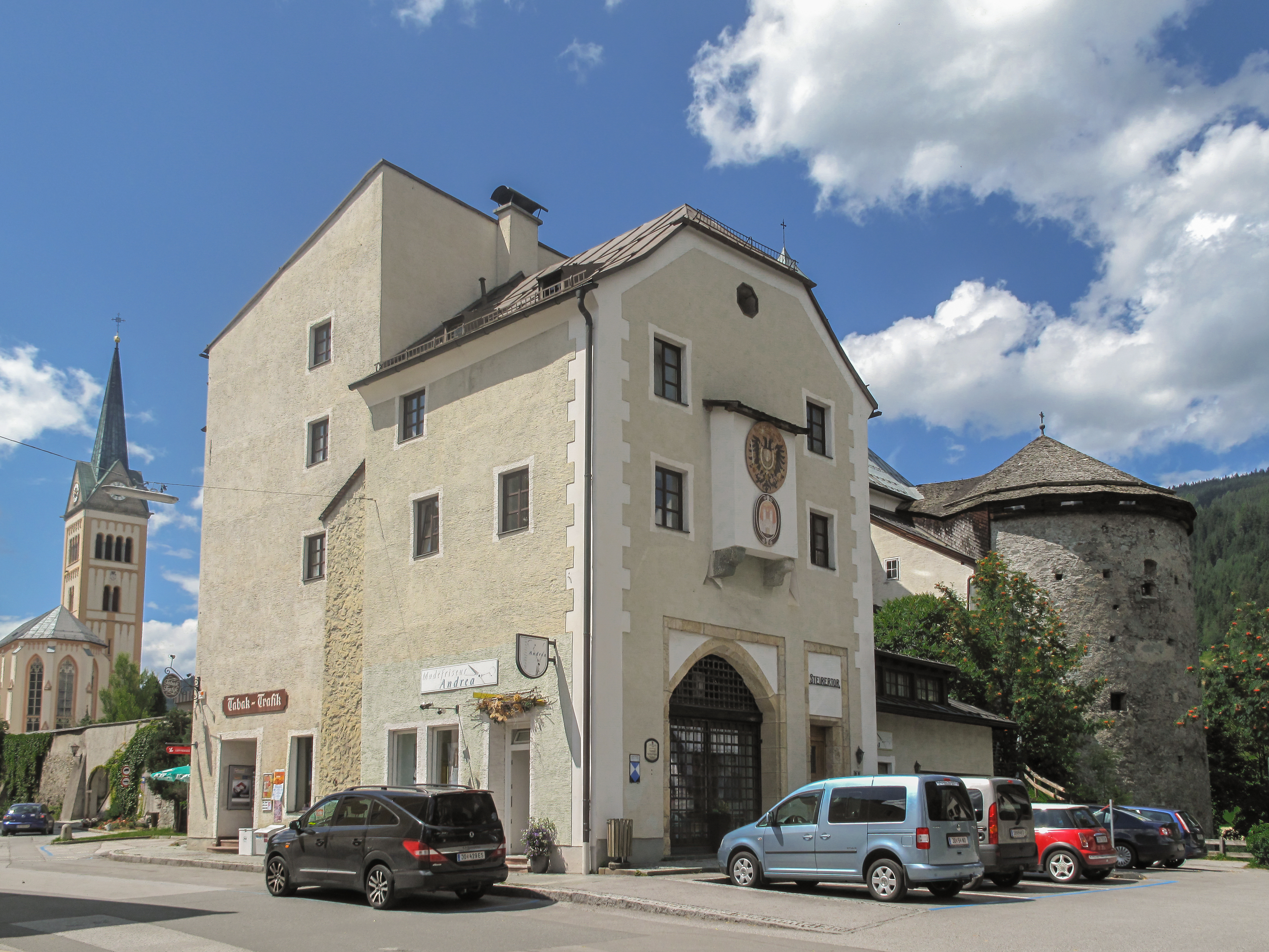 Radstadt, monumental building, tower and church on background